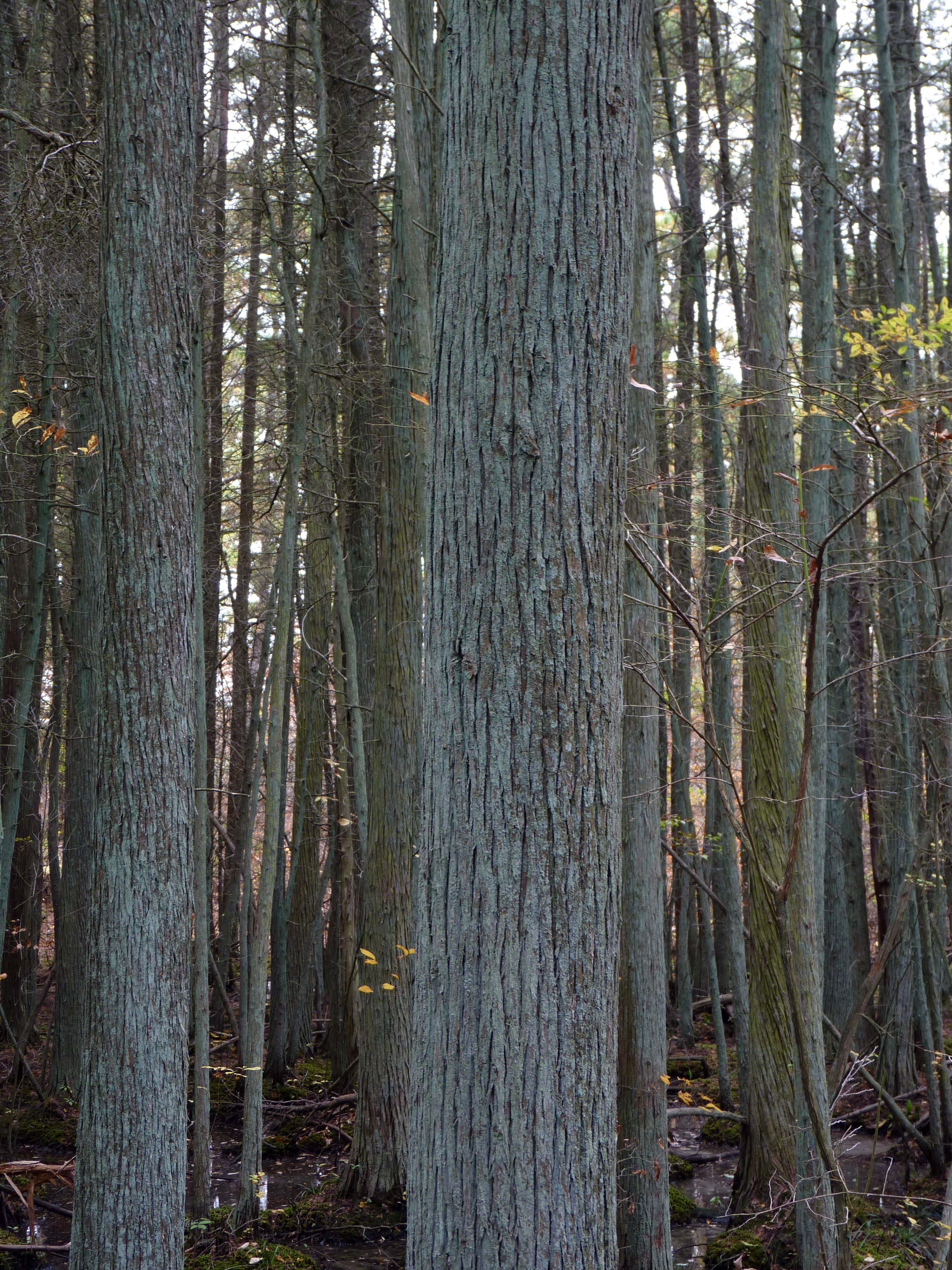 Atlantic White Cypress Chamaecyparis thyoides trunks, Franklin Parker Reserve, Chatsworth, New Jersey.